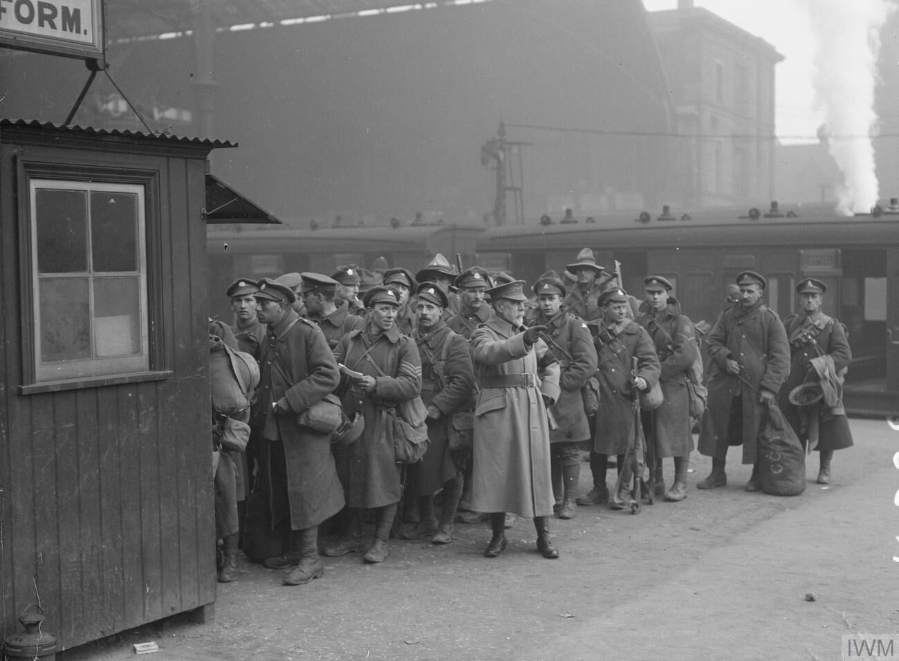 The British Army on the Home Front, 1914-1918 A volunteer of the National Guard directing British troops arriving home on leave at Victoria Station, London. They all queueing up to the money exchange office.